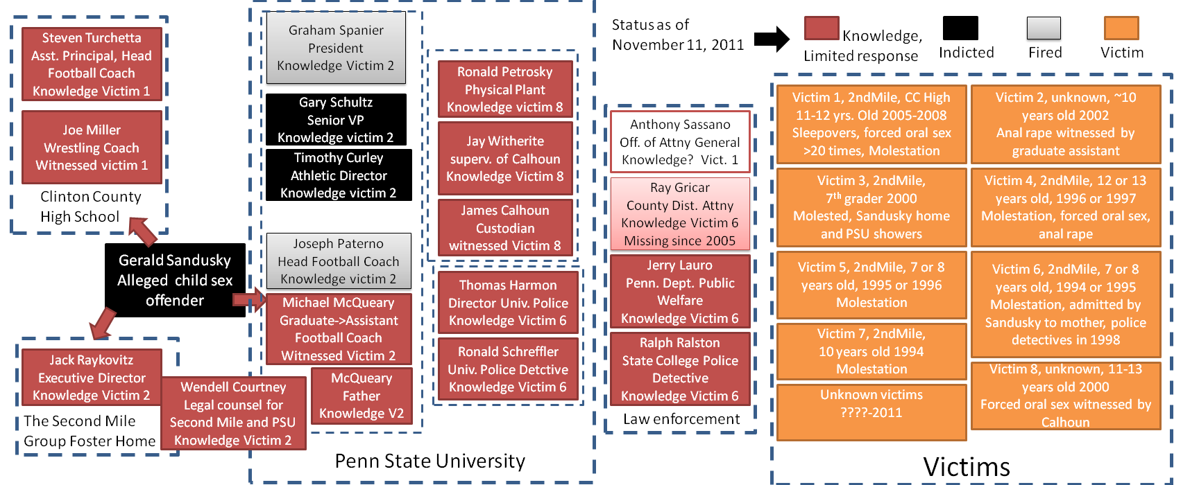 Gerald Sandusky Sexual Abuse and Related Cover-ups. Illustrated from "Report of Thirty Third Statewide Investigating Grand Jury". Pennsylvania Attorney General. Retrieved 10 November 2011. Color codings represent status of people as of EST evening November 9, 2011